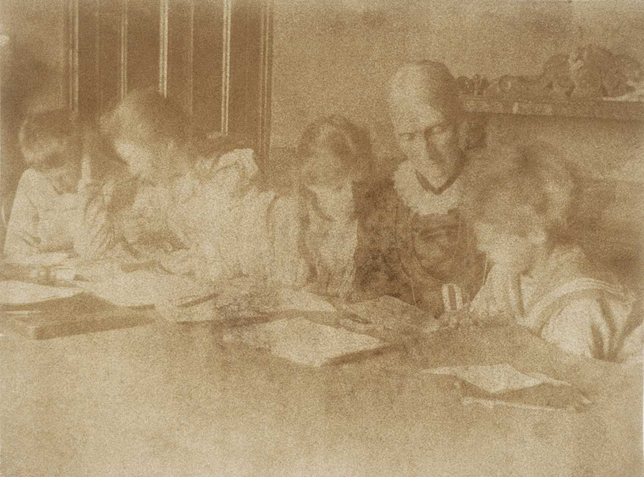 Thoby, Vanessa, Virginia, Julia, and Adrian with their mother, Julia Stephen, doing their lessons at Talland House c. 1894